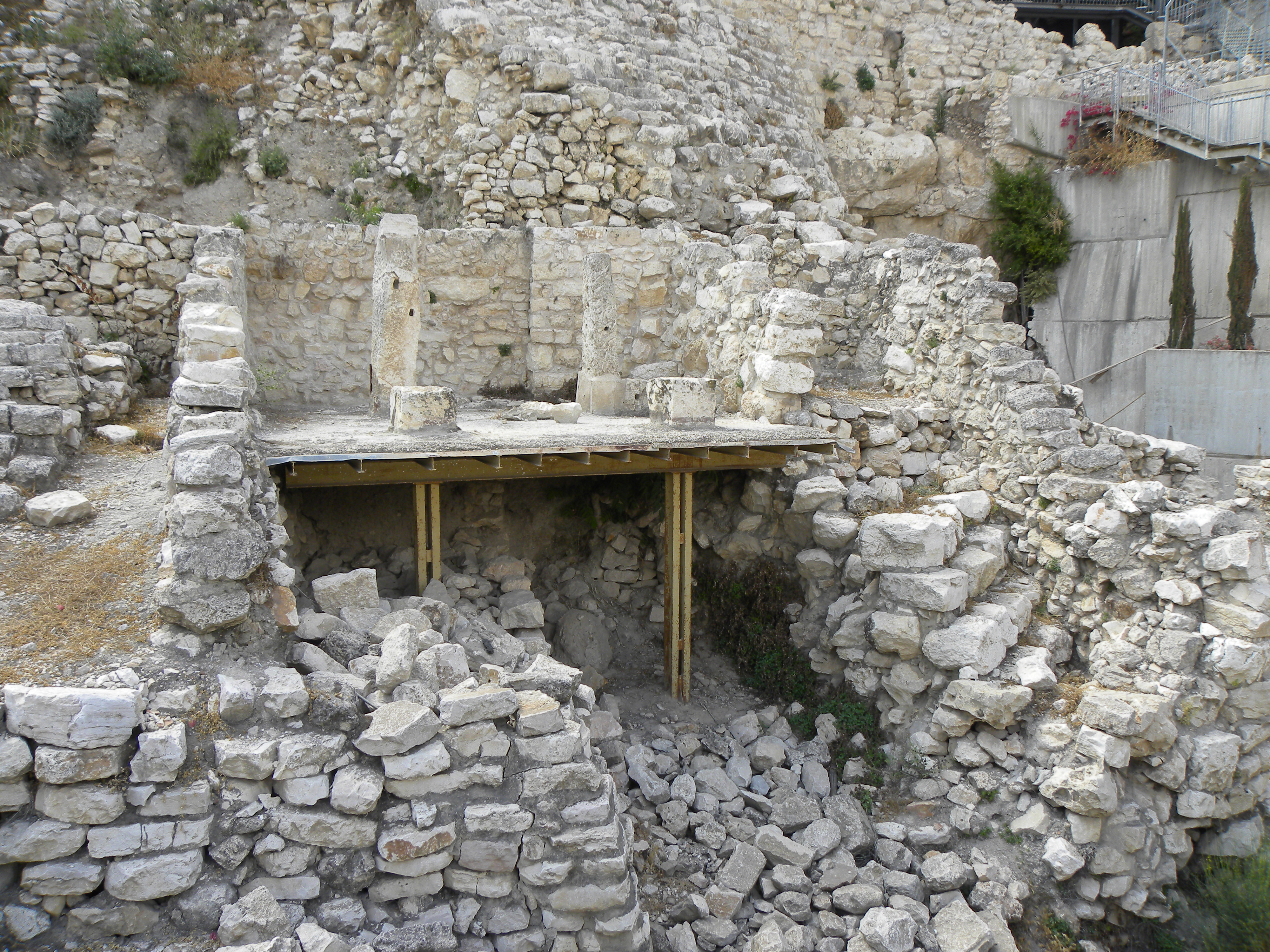 Remains of a 7th century BCE house on the upper north-eastern slope of the City of David. The section reconstructed here is a good example of the classic "4-pillar house" layout. Behind and at right is the so-called "stepped stone structure" from the early 10th century. It appears that later population growth in Jerusalem prompted the building of a residential district on the slope, some of which was build up the surface of the 10th-century structure. Jerusalem